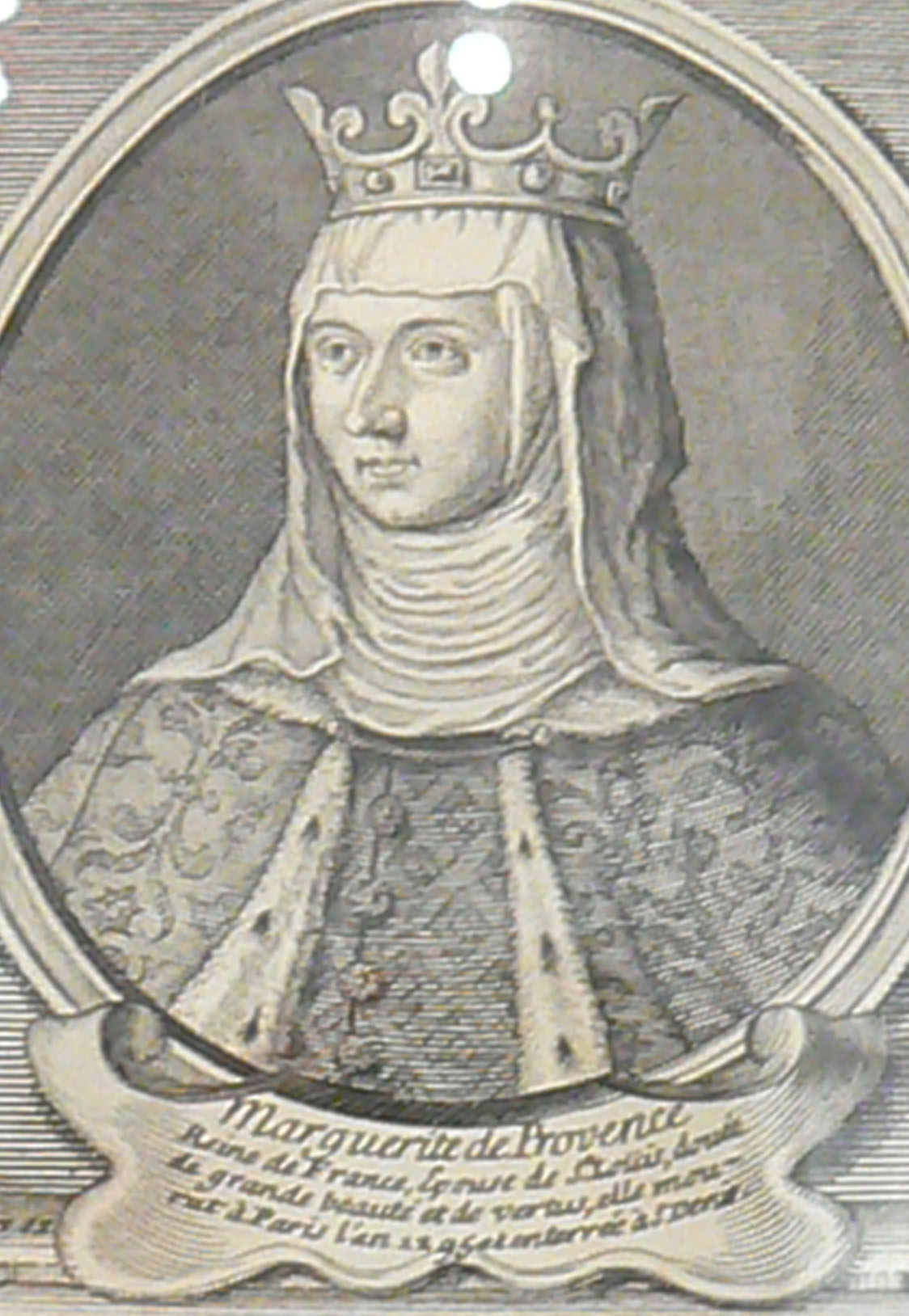 Marguerite of Provence